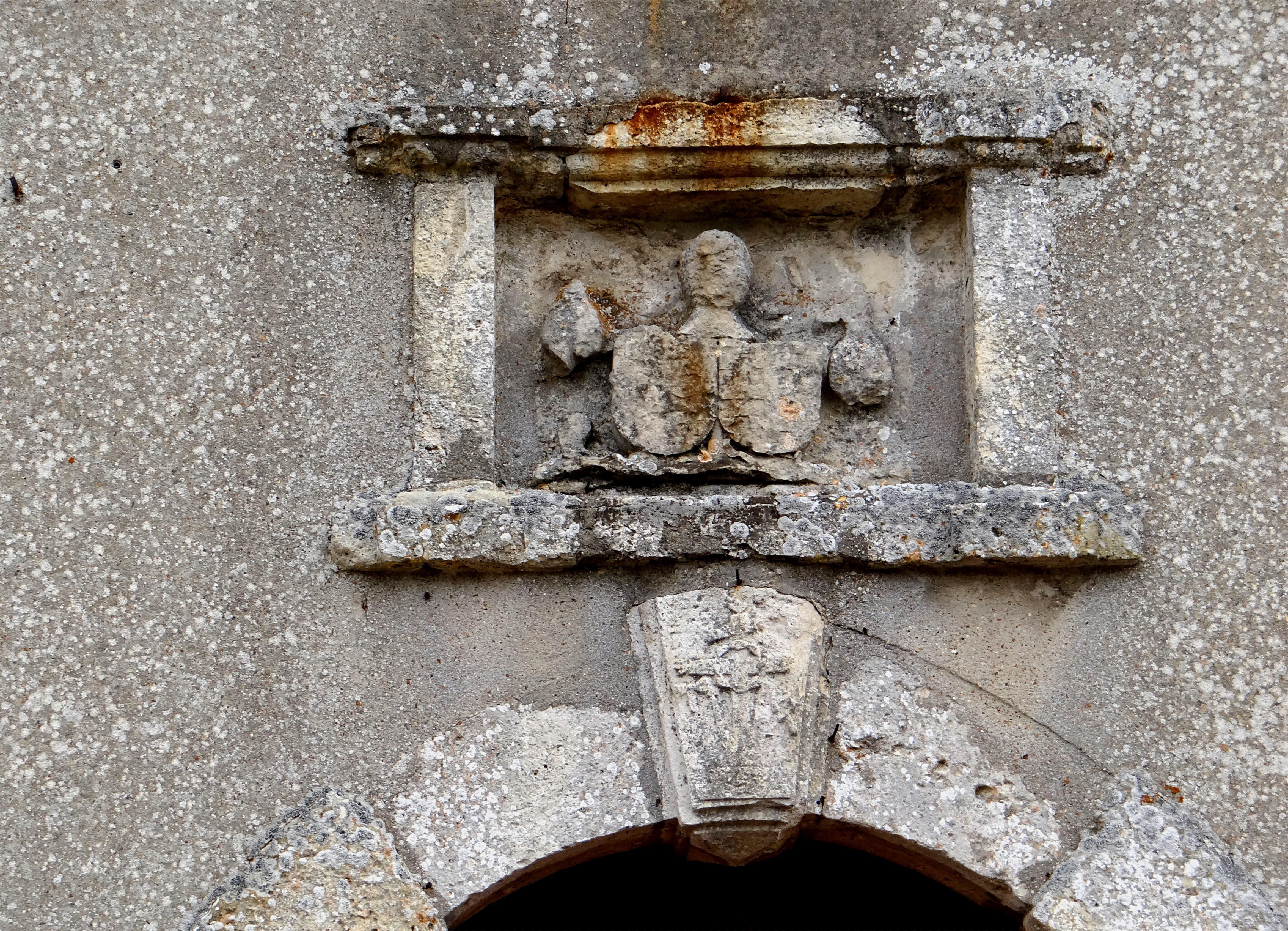 Church of St. Gilles, Levainville, Eure-et-Loir, France. Patches of family Cochefilet above the main door; the keystone: the instruments of the Passion.